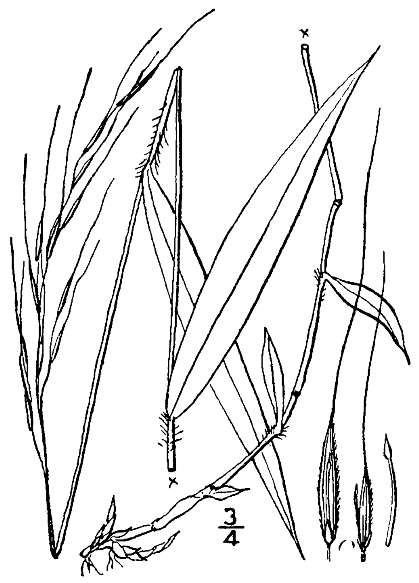 Brachyelytrum erectum (Schreb. ex Spreng.) P. Beauv. - bearded shorthusk